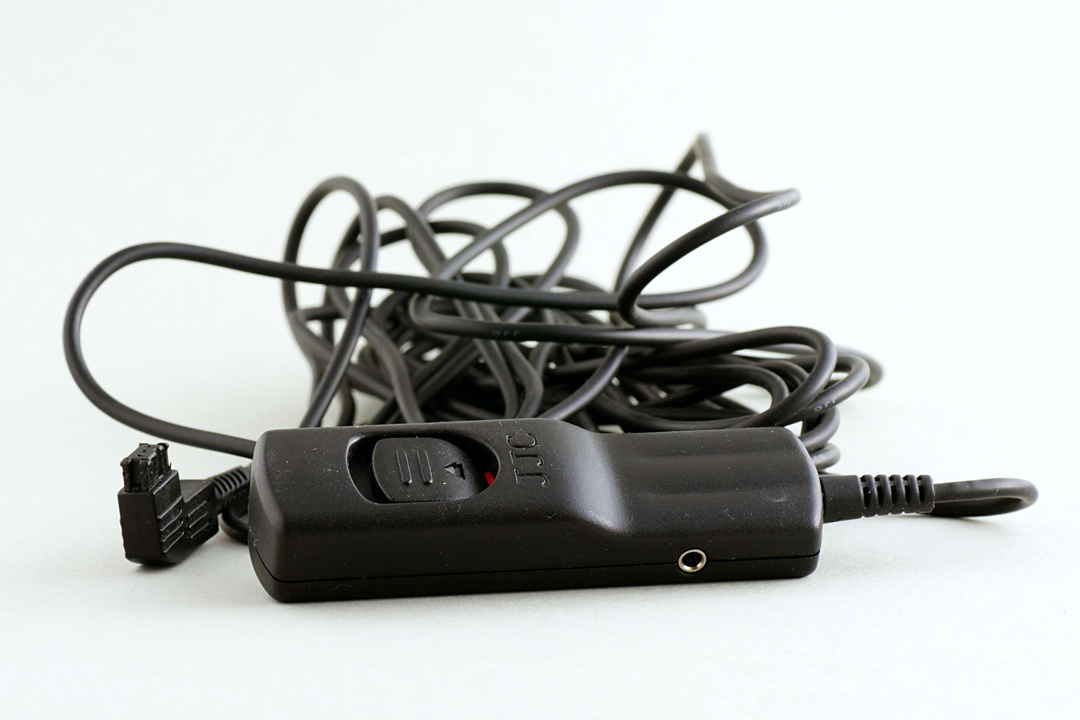 A cable release for Sony digital SLRs.